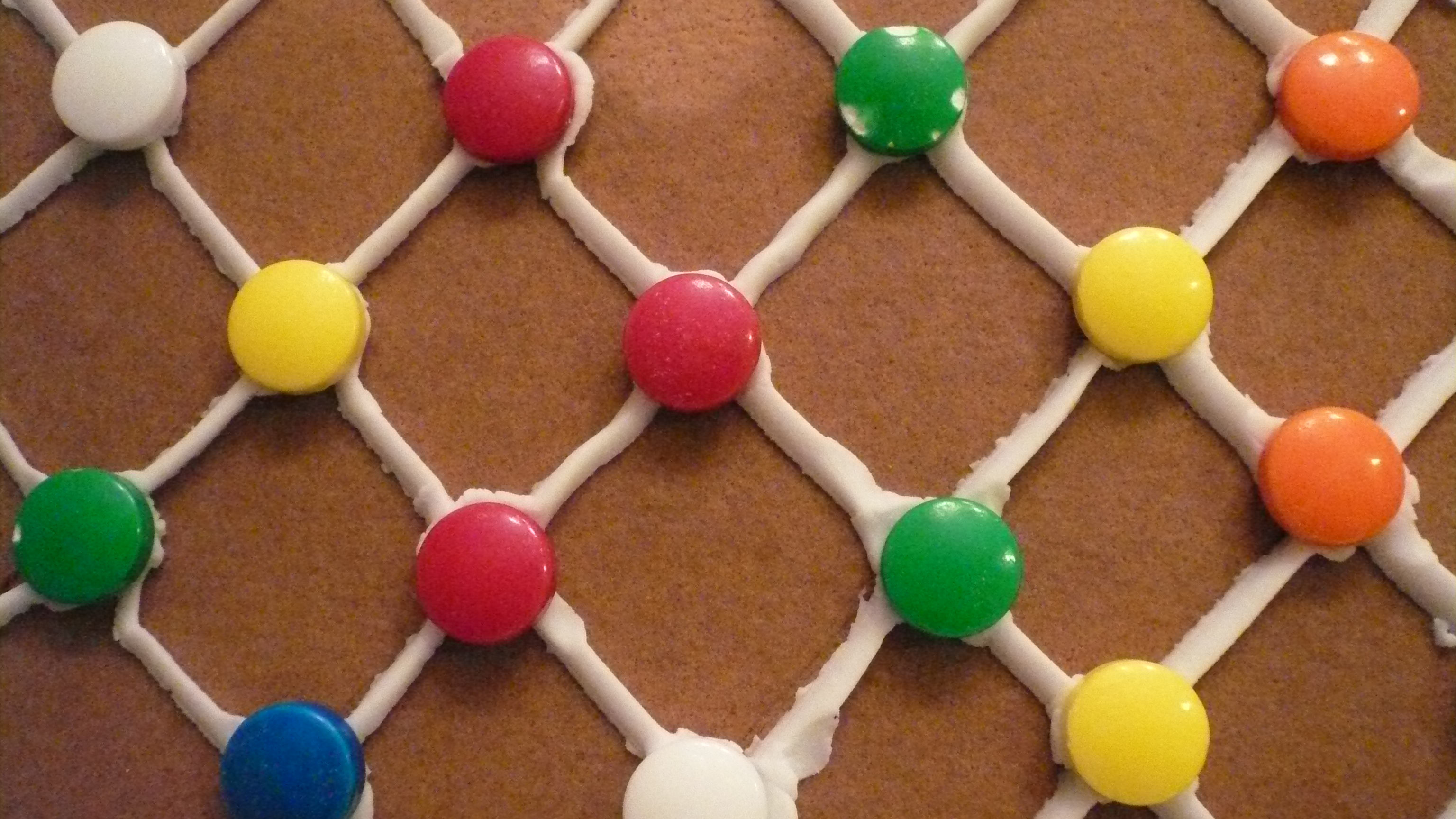 Geoffrey and Adrian build a gingerbread house